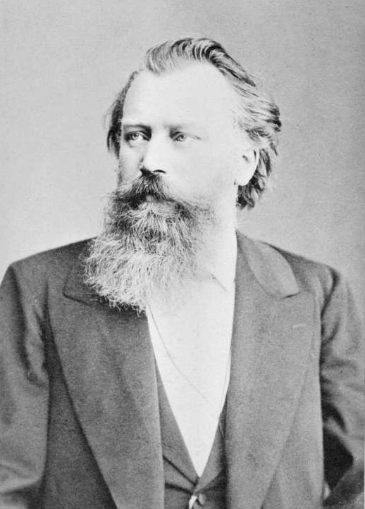 Johannes Brahms, german composer, pianist and conductor